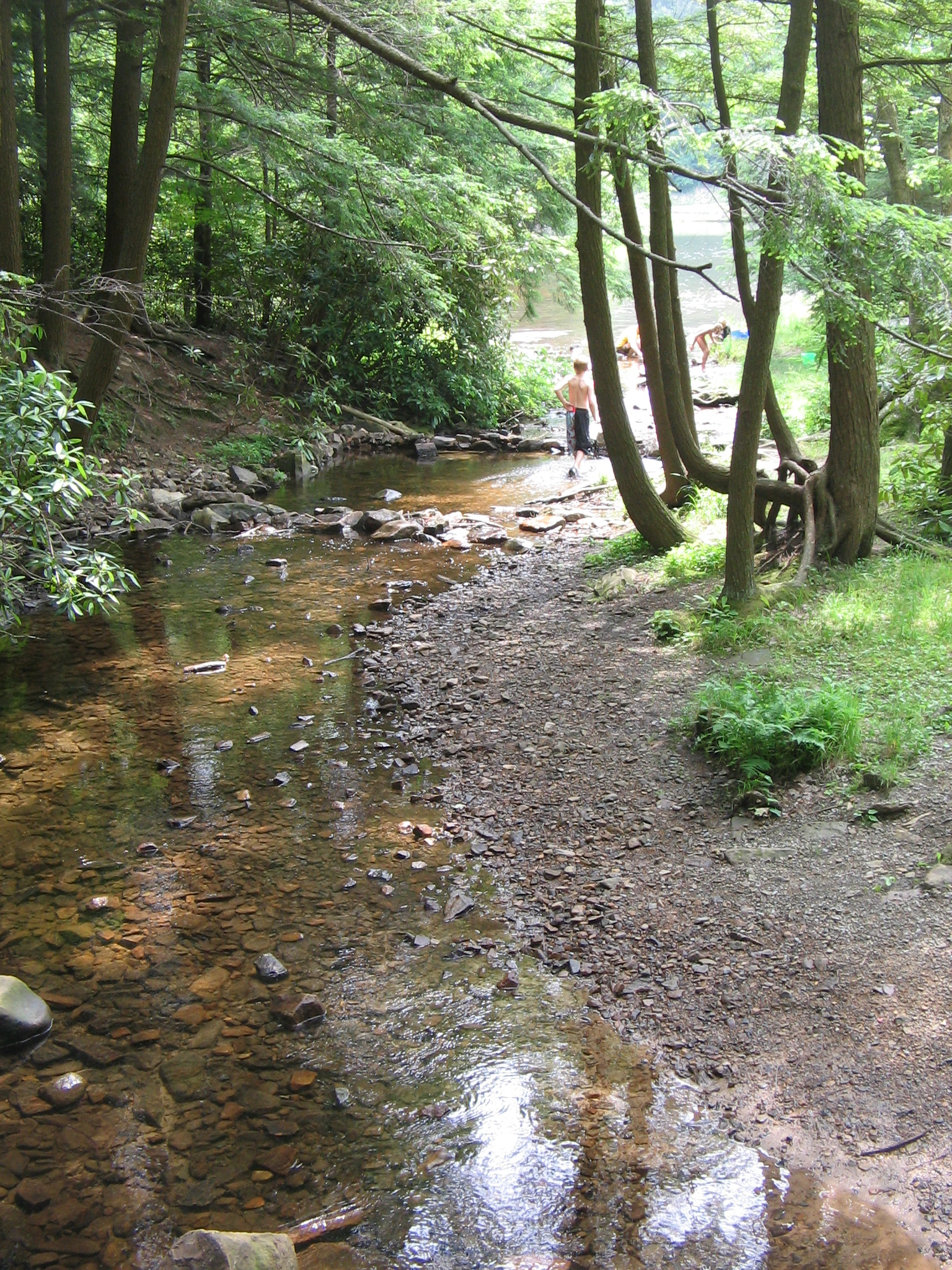 Halfway Run entering the lake at R.B. Winter State Park in Union County, Pennsylvania in the United States